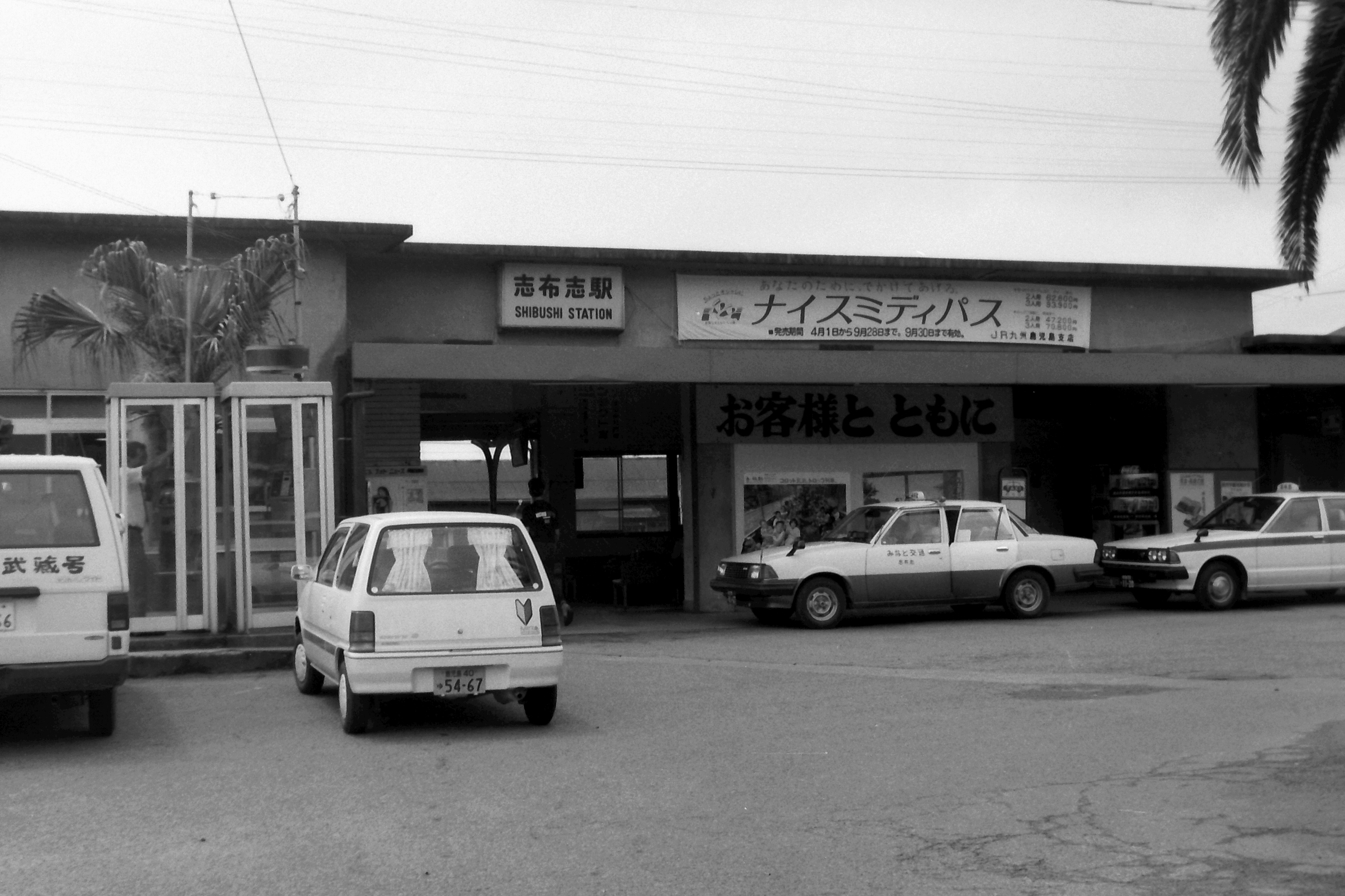 Shibushi station entrance